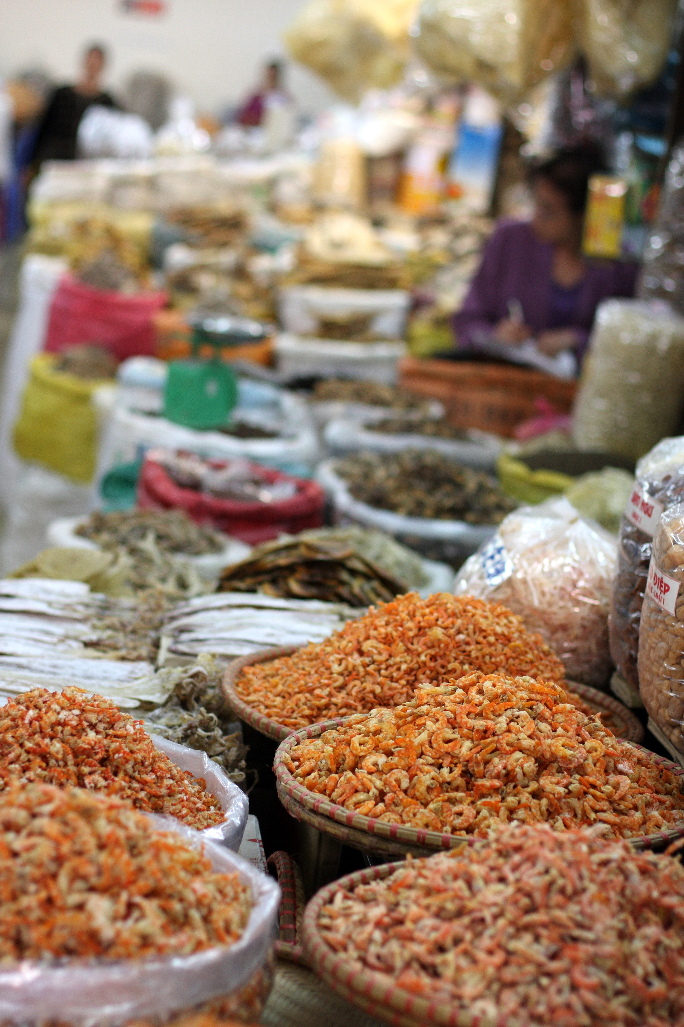 Đồng Xuân Market, Old Quarter, Hanoi, Vietnam